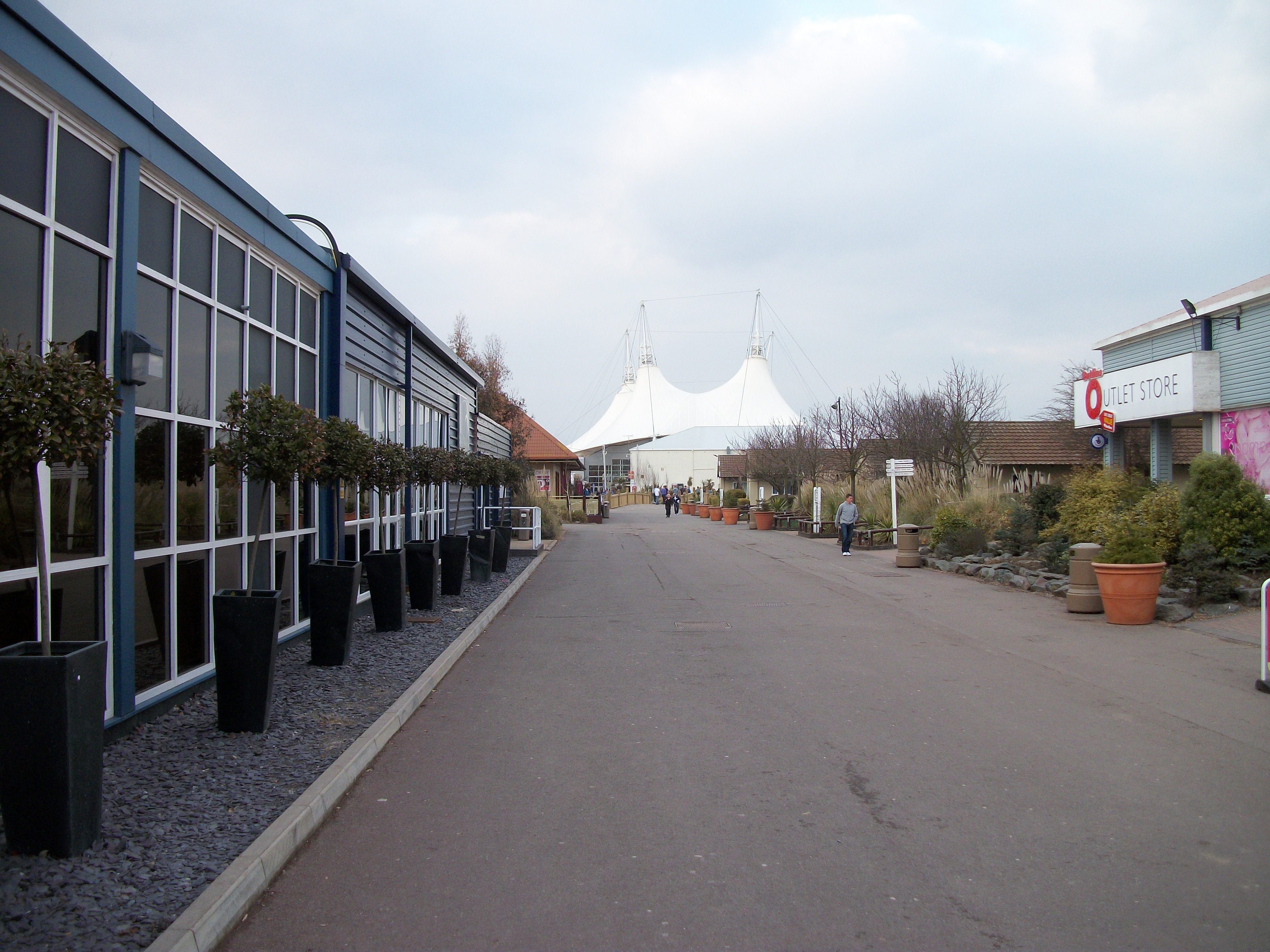 Butlins Skegness, near to Ingoldmells, Lincolnshire, Great Britain.